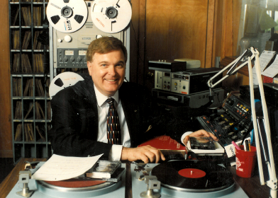 This is a photo of Mr. Bart Walker in the 1980's at WGNS in their production studio. Notice the reel-to-reel machine and record players.